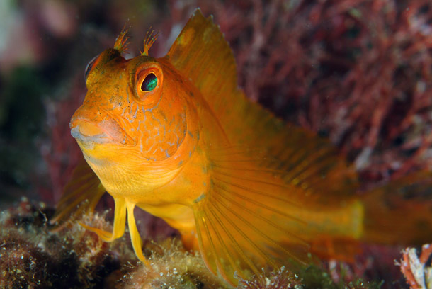 Parablennius pilicornis photographed near Livorno (Tuscany, Italy). Photo by Stefano Guerrieri.